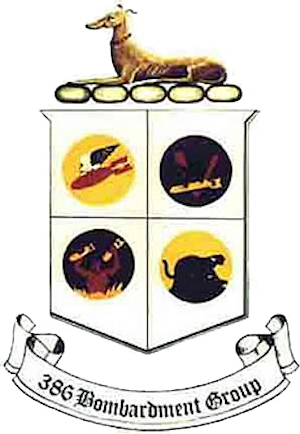 386h Bombardment Group - Emblem